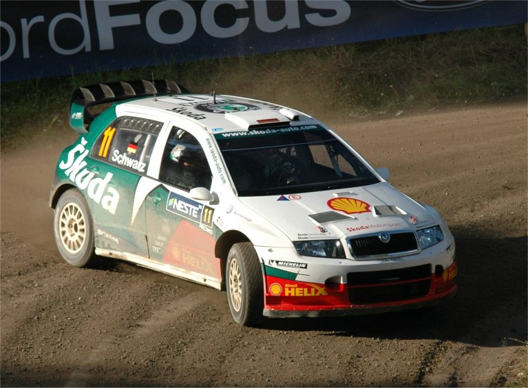 Armin Schwarz driving his Škoda Fabia WRC at the 2005 Rally Finland.